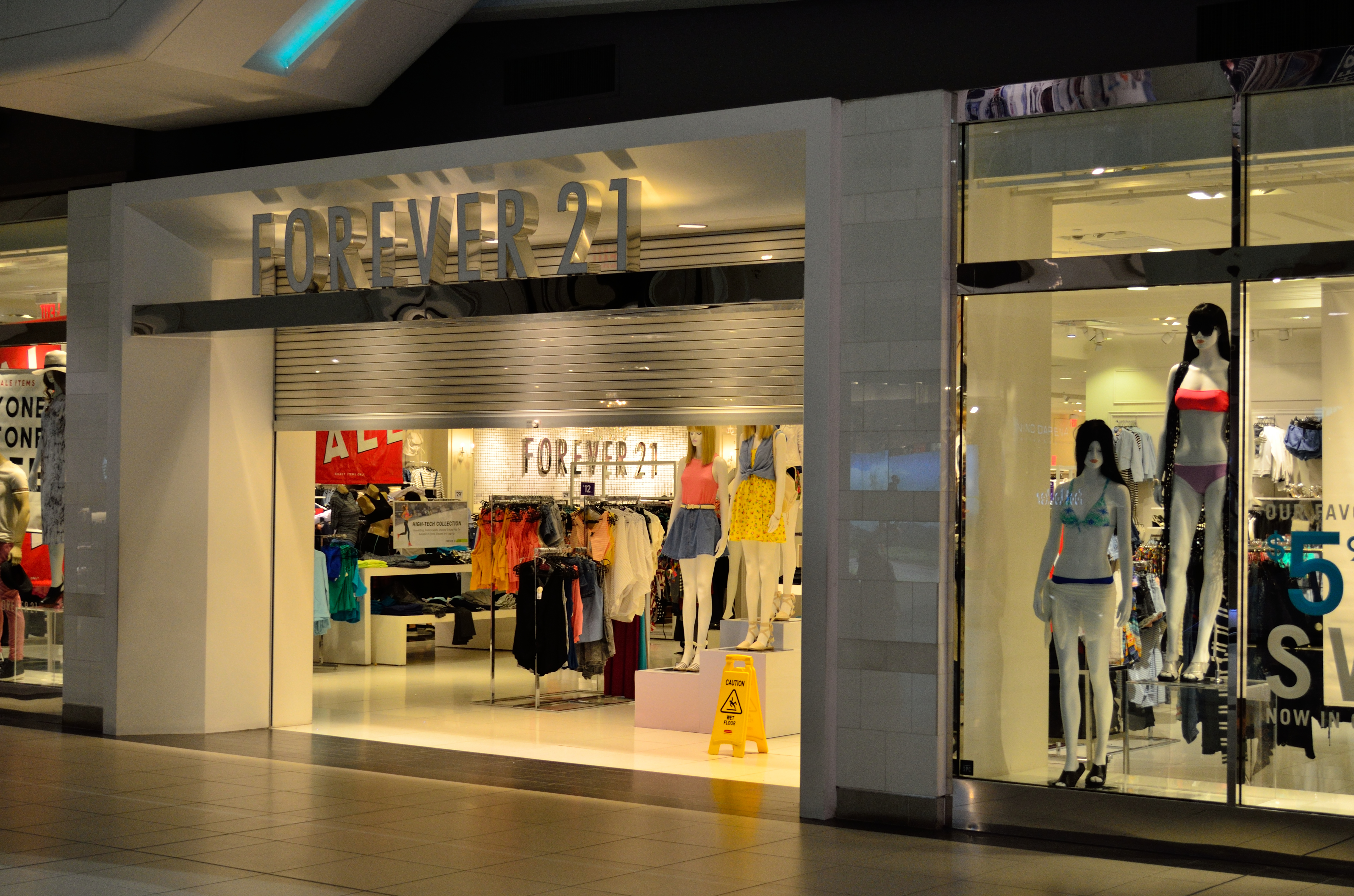 Forever 21 at Toronto Eaton Center